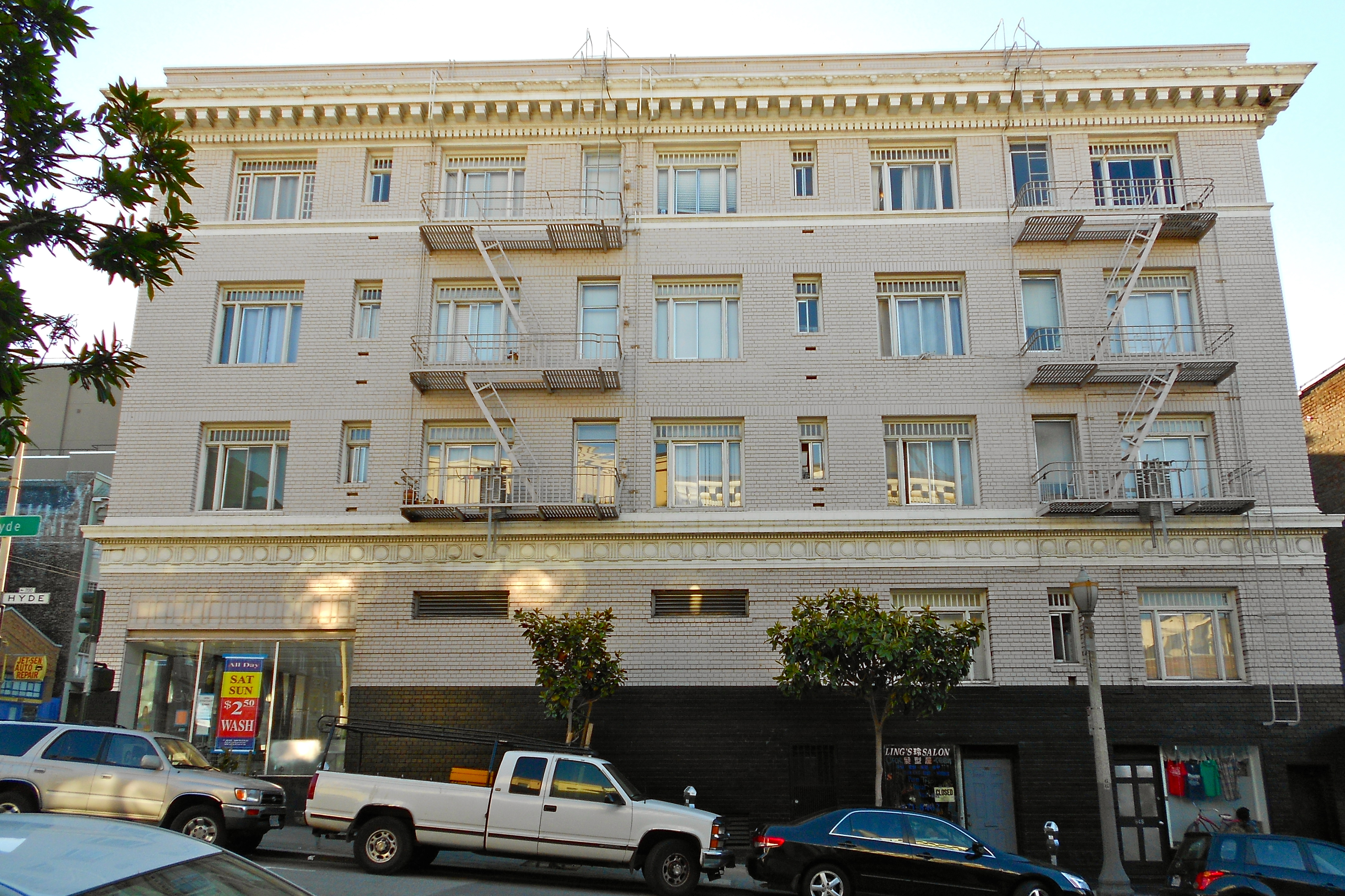 Apartment building of Dasheil Hammett/Sam Spade at 891 Post Street San Francisco. Hammett lived in the upper left corner apt.